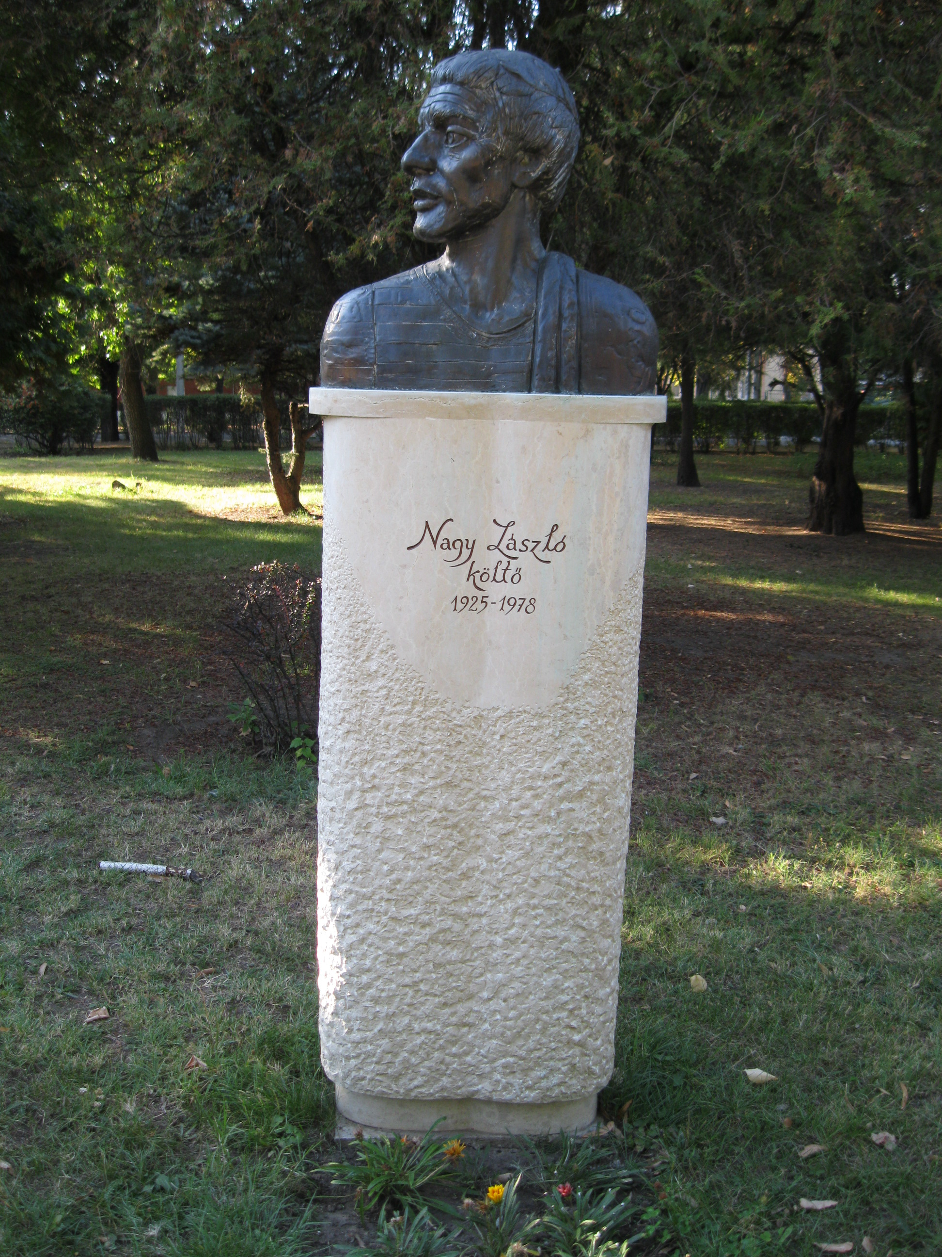 László Nagy (poet) bust in Budapest District XVIII, Kossuth Lajos Square. Sculptor: Pál Kő. Erected in 2009.